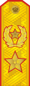 Rank insignia of the Russian federation’s armed forces, here Army general (OF-9) – shoulder strap dress uniform (1992 – 1997).